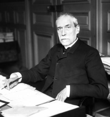 French philosopher Émile Boutroux (1845-1921)